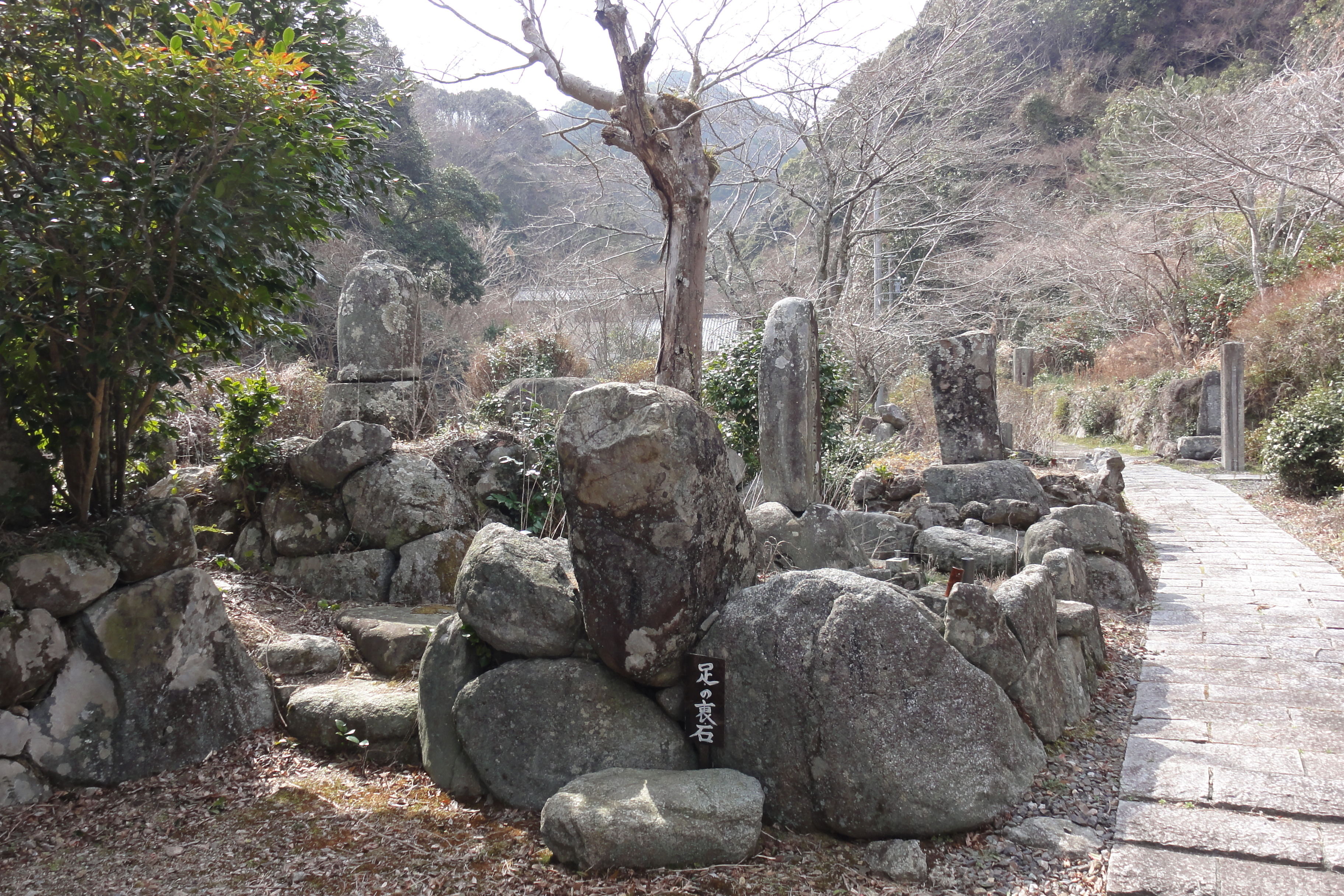 Zuiganji Gardens,Mie prefecture,Japan